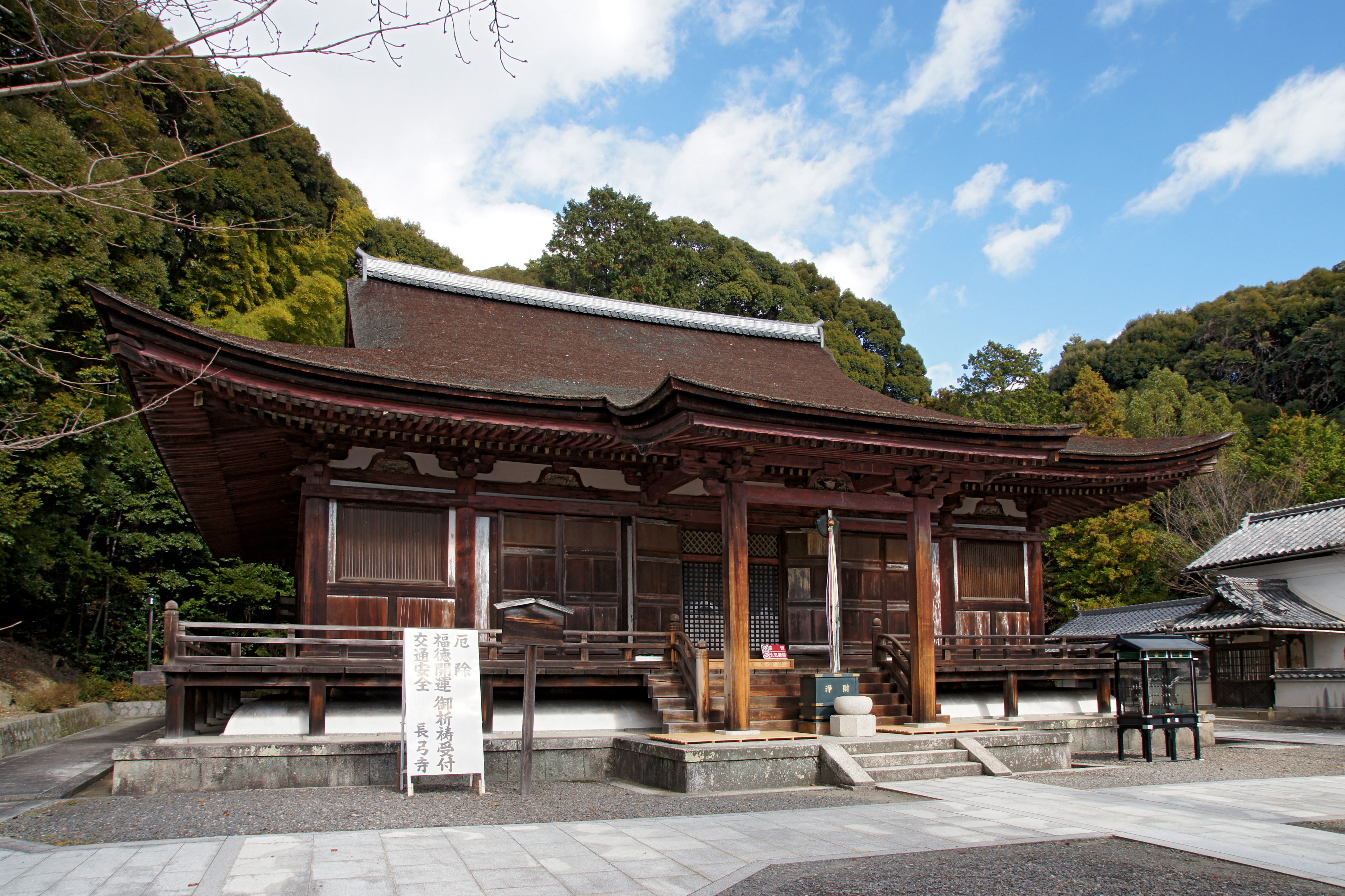 Chōkyū-ji's Main Hall is a Japan's National Treasure in Ikoma, Nara Prefecture, Japan. It was rebuilt in 1279.